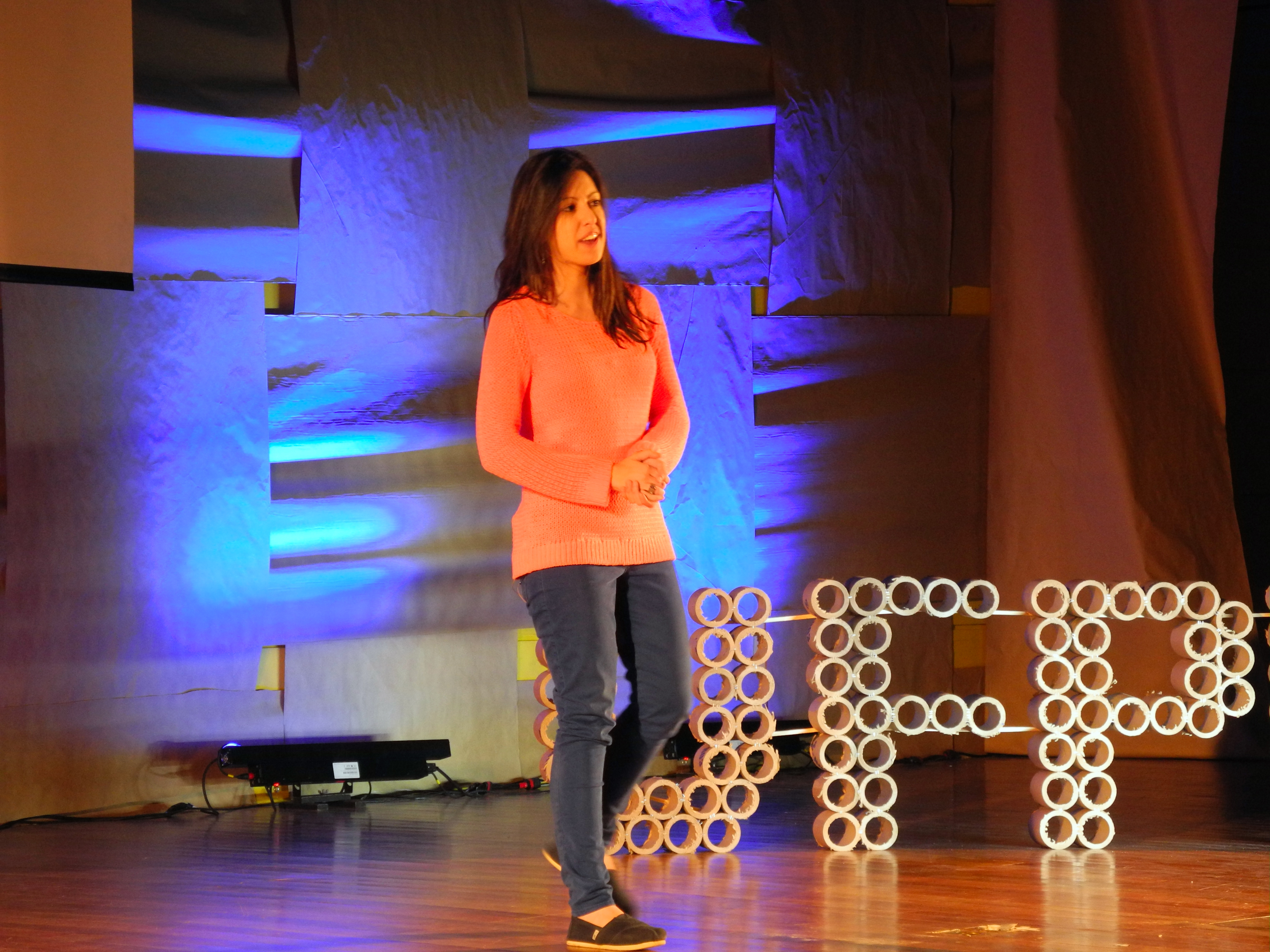 Bel Pesce Foto Gus Oenning Bel Pesce returned to Brazil after the Massachusetts Institute of Technology. FazInova offers free online courses